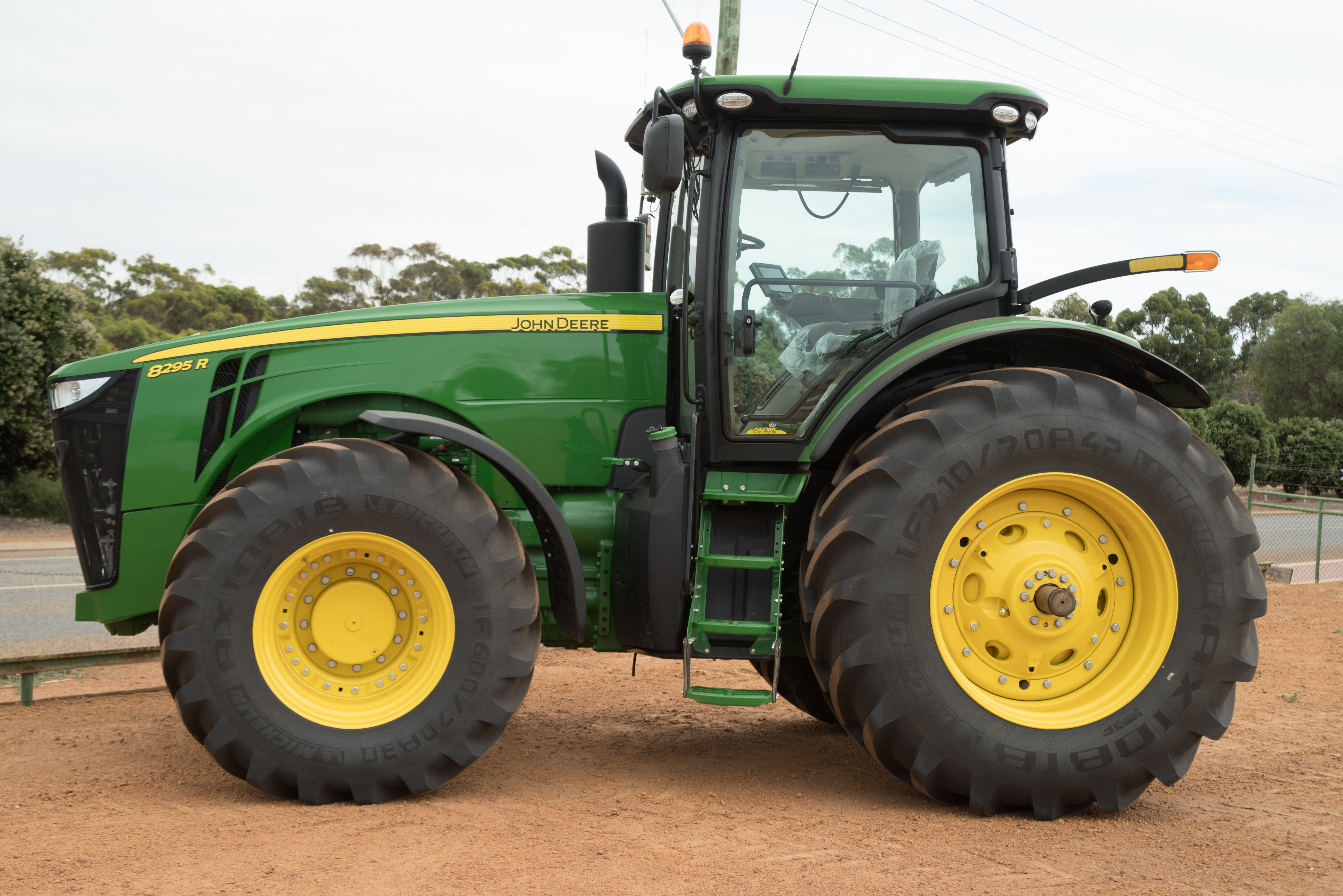 new John Deere 8295r tractor